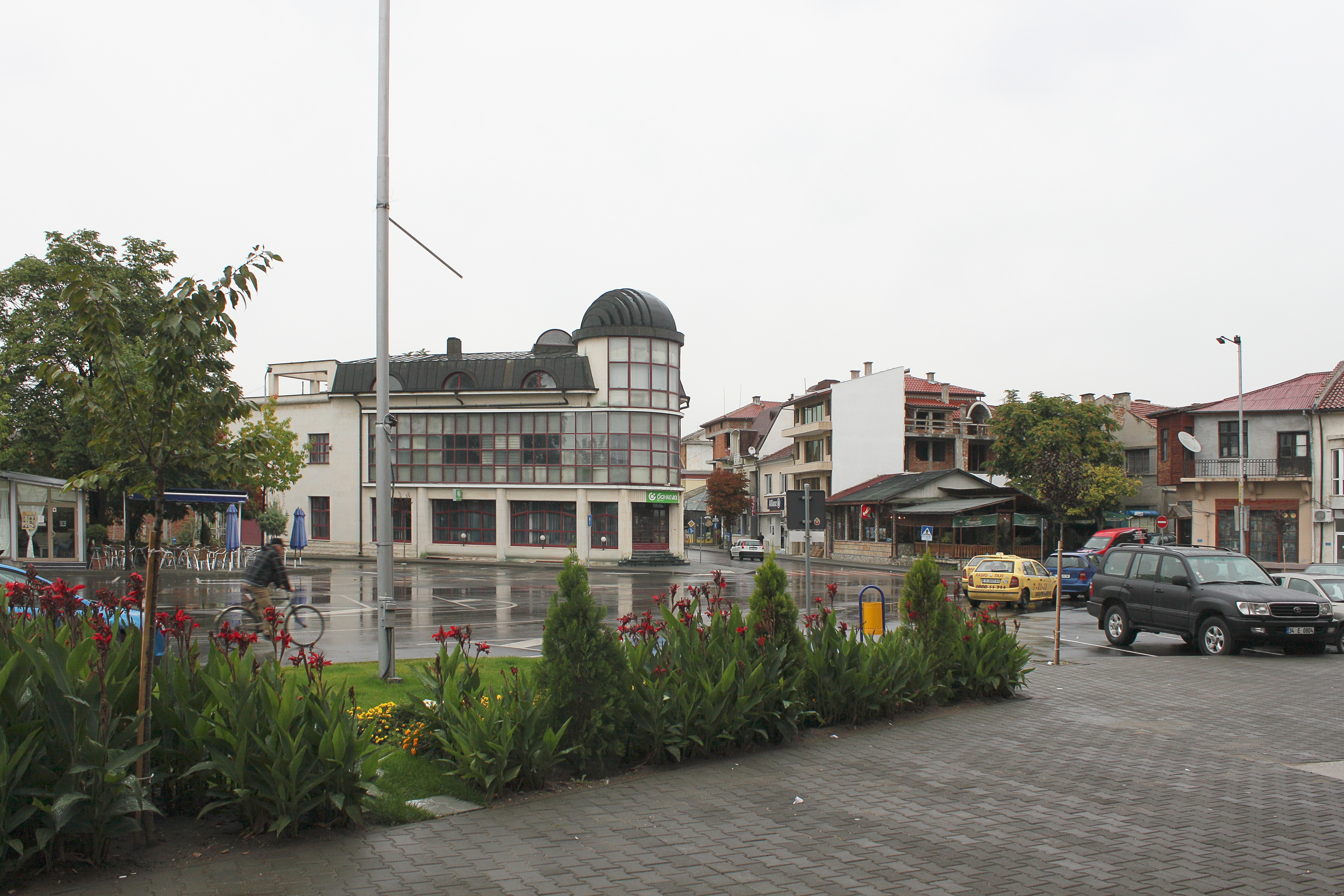 Swilengrad